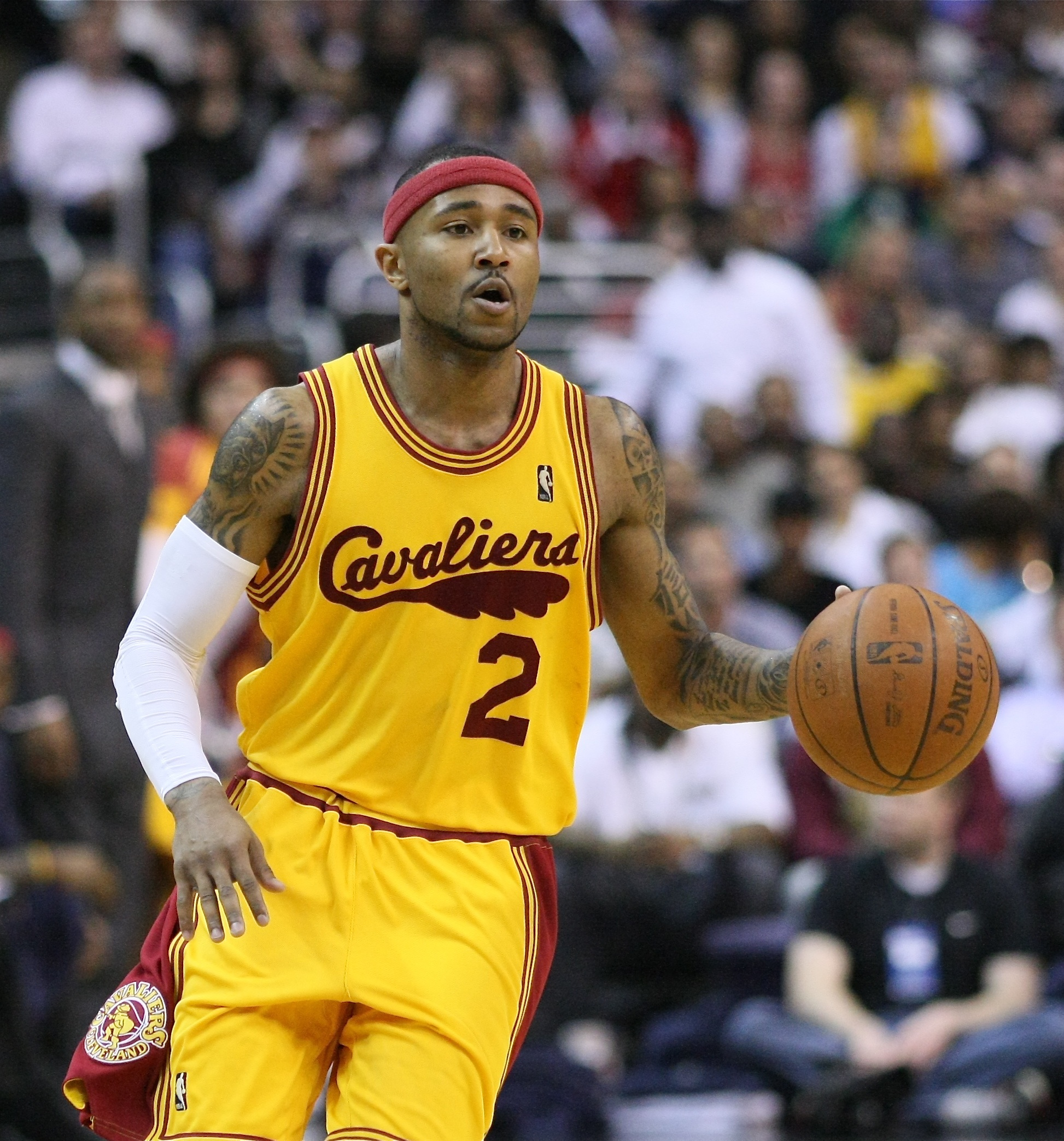 Maurice Williams playing with the Cleveland Cavaliers